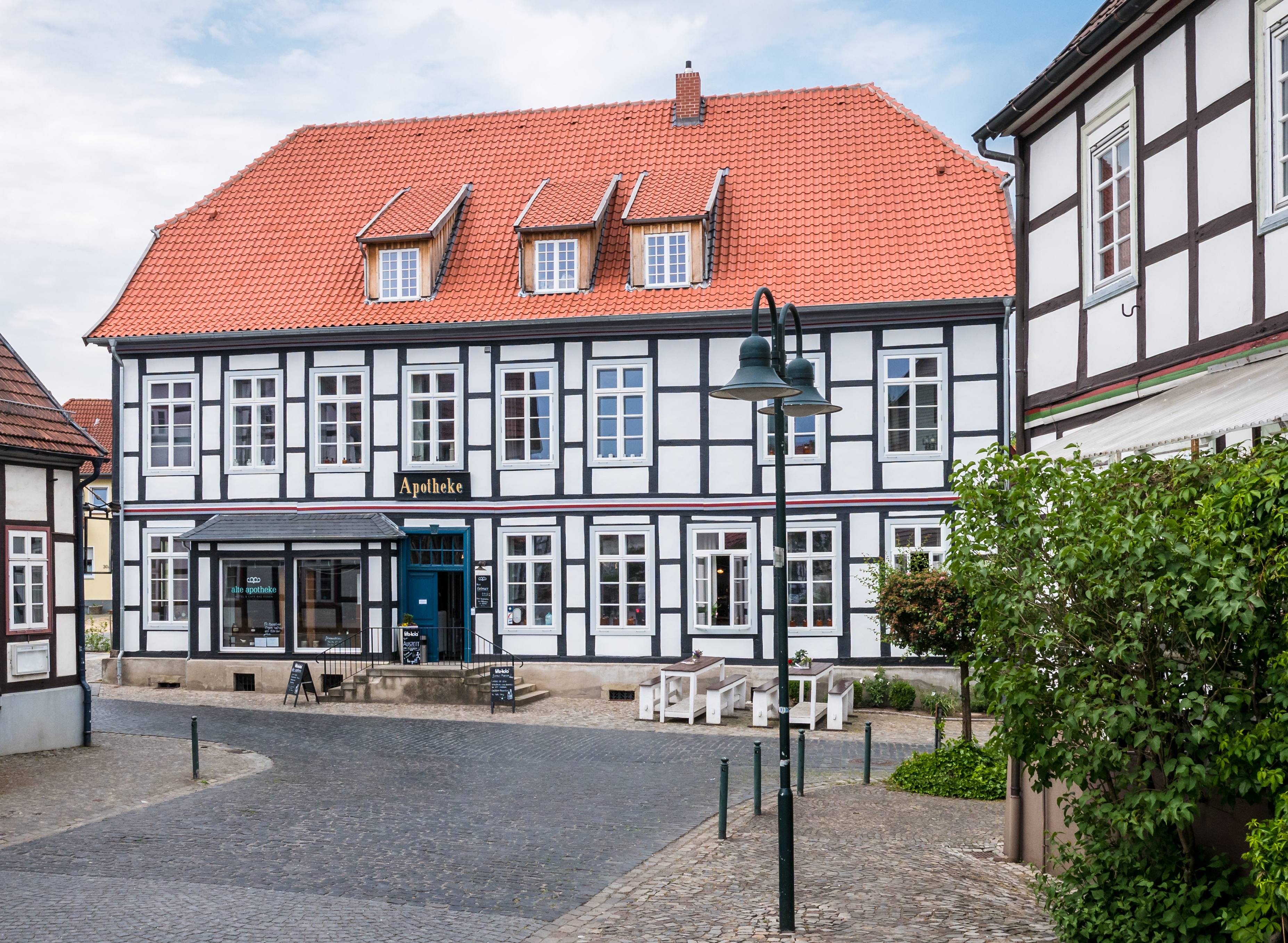 Alte Apotheke (the Old Pharmacy), now a hotel and coffeehouse. Bad Essen, Osnabrück Land, Lower Saxony, Germany